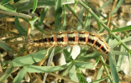 Near Tàrrega, Lleida, Catalonia.